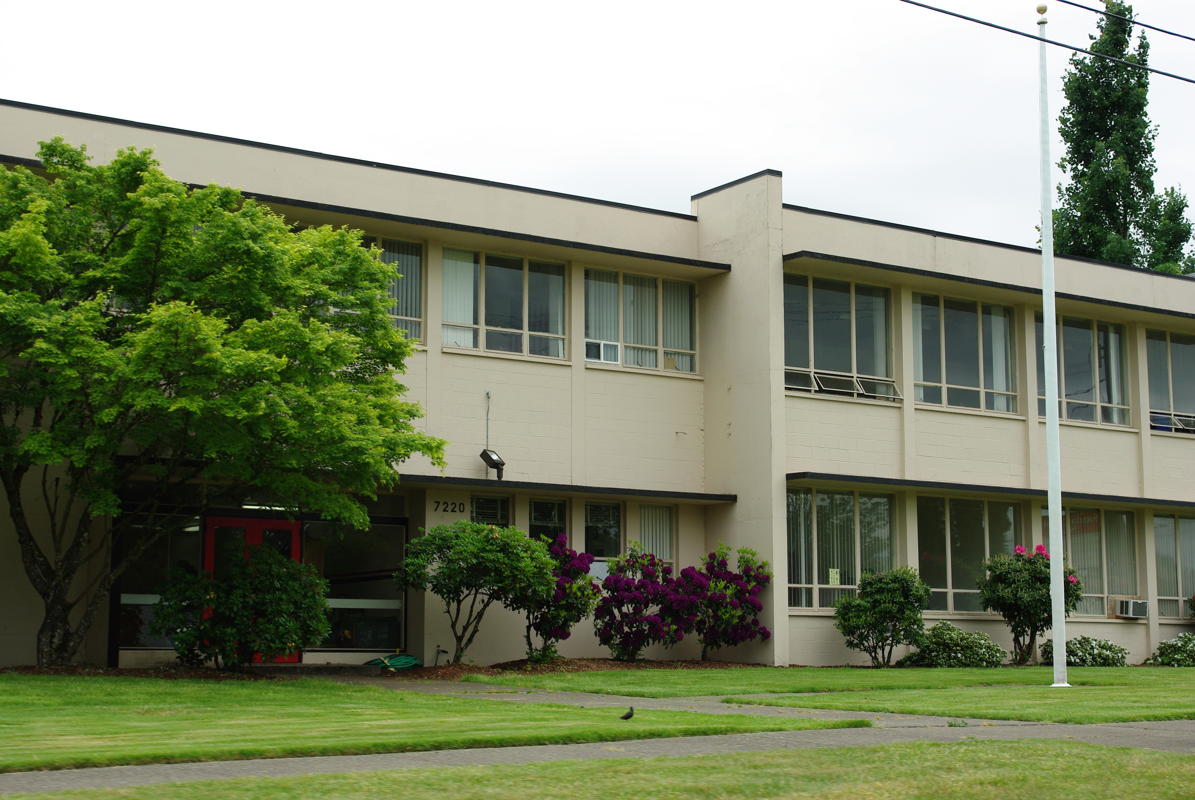 Adair Village, Oregon school: Santiam Christian